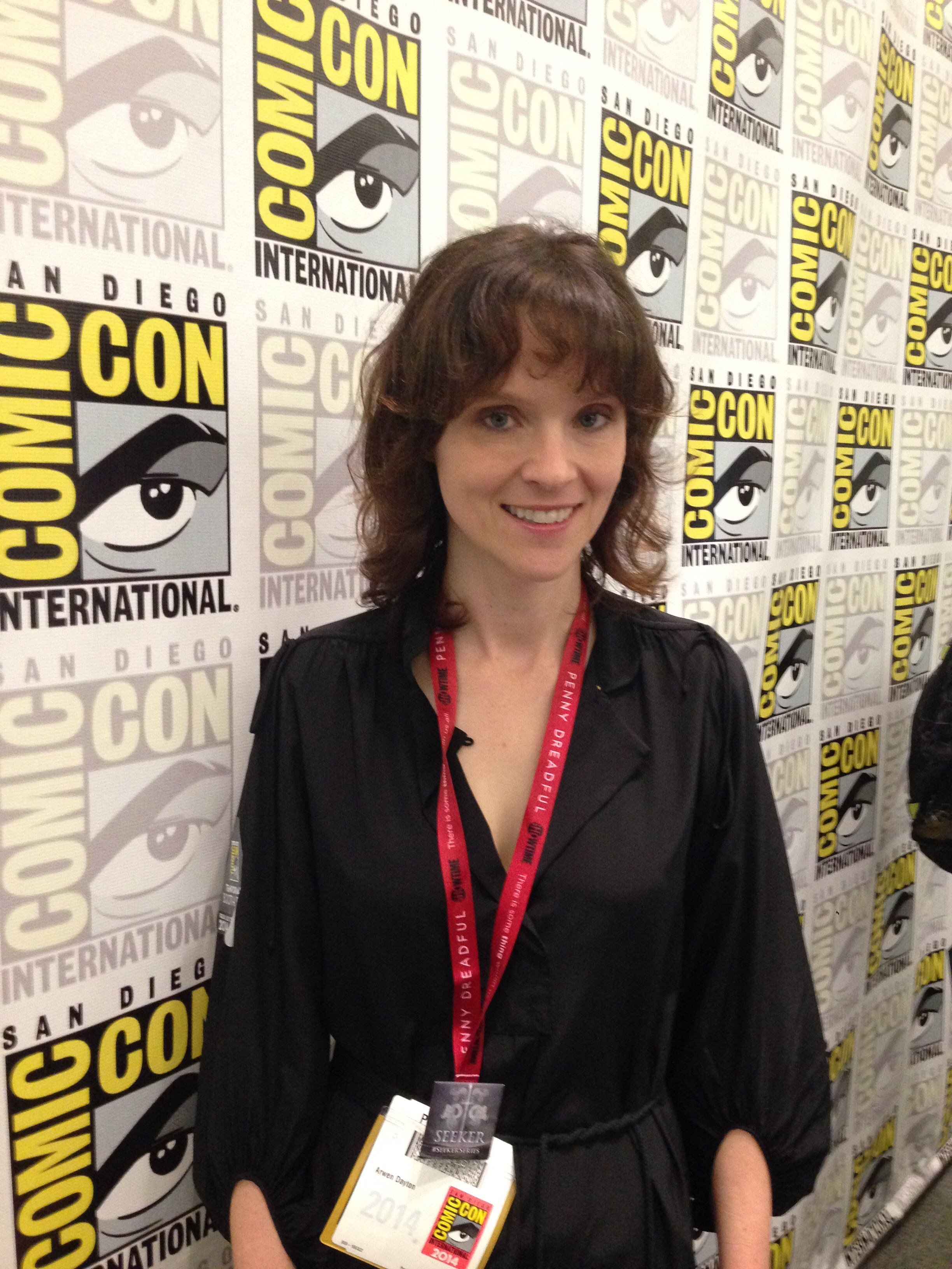 Arwen Elys Dayton, author of Seeker, Traveler, Disruptor, Resurrection, and Stronger, Faster and More Beautiful at San Deigo Comic-Con in 2014